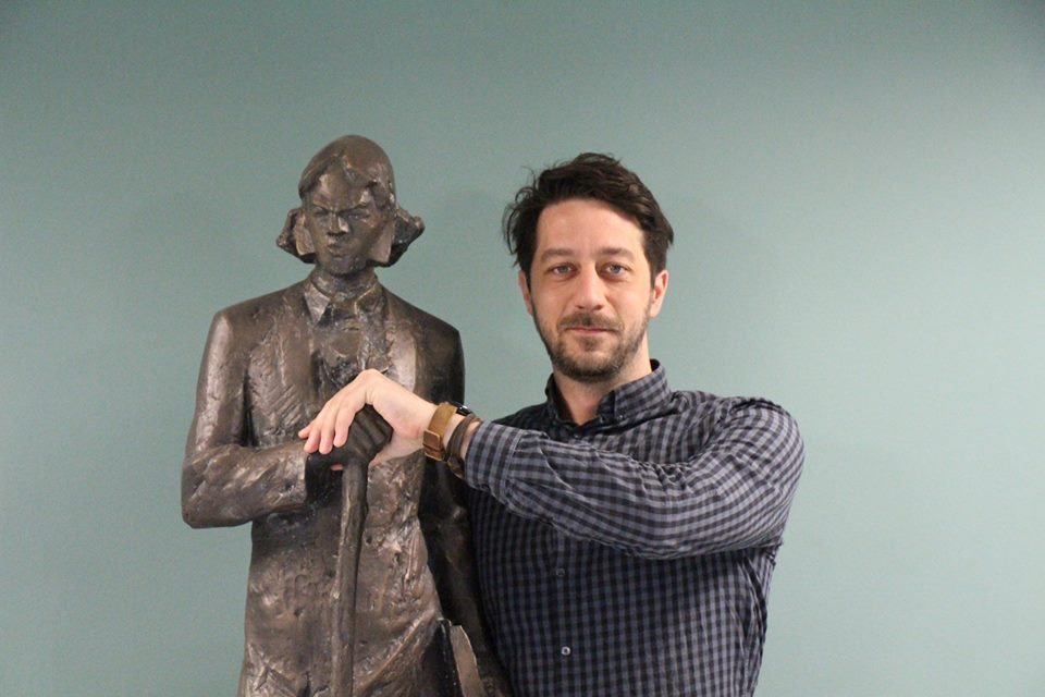 Adam Cullen next to a statue of Kristjan Jaak Peterson.